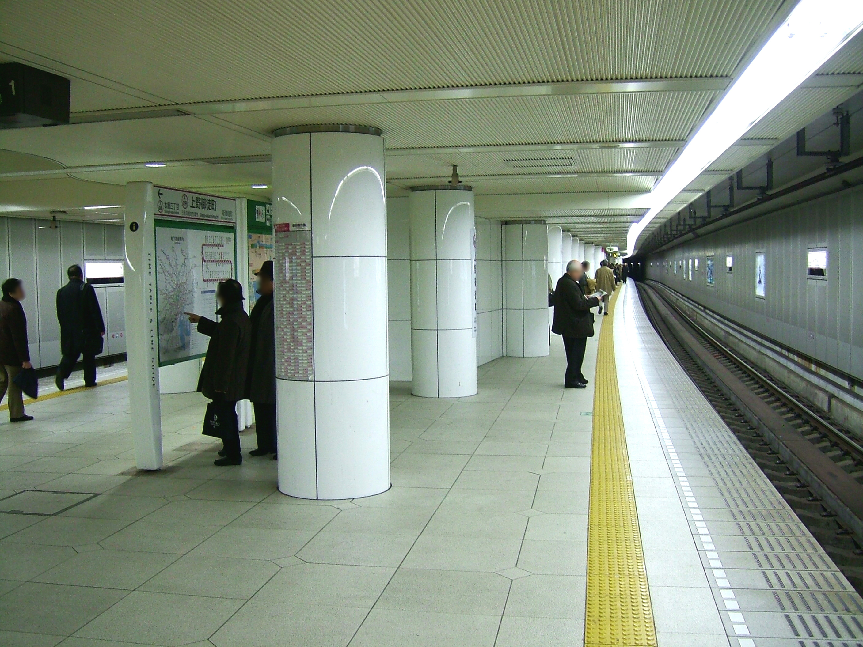 The platform at Ueno-Okachimachi Station on the Toei Ōedo Line in Taitō city, Tokyo, Japan